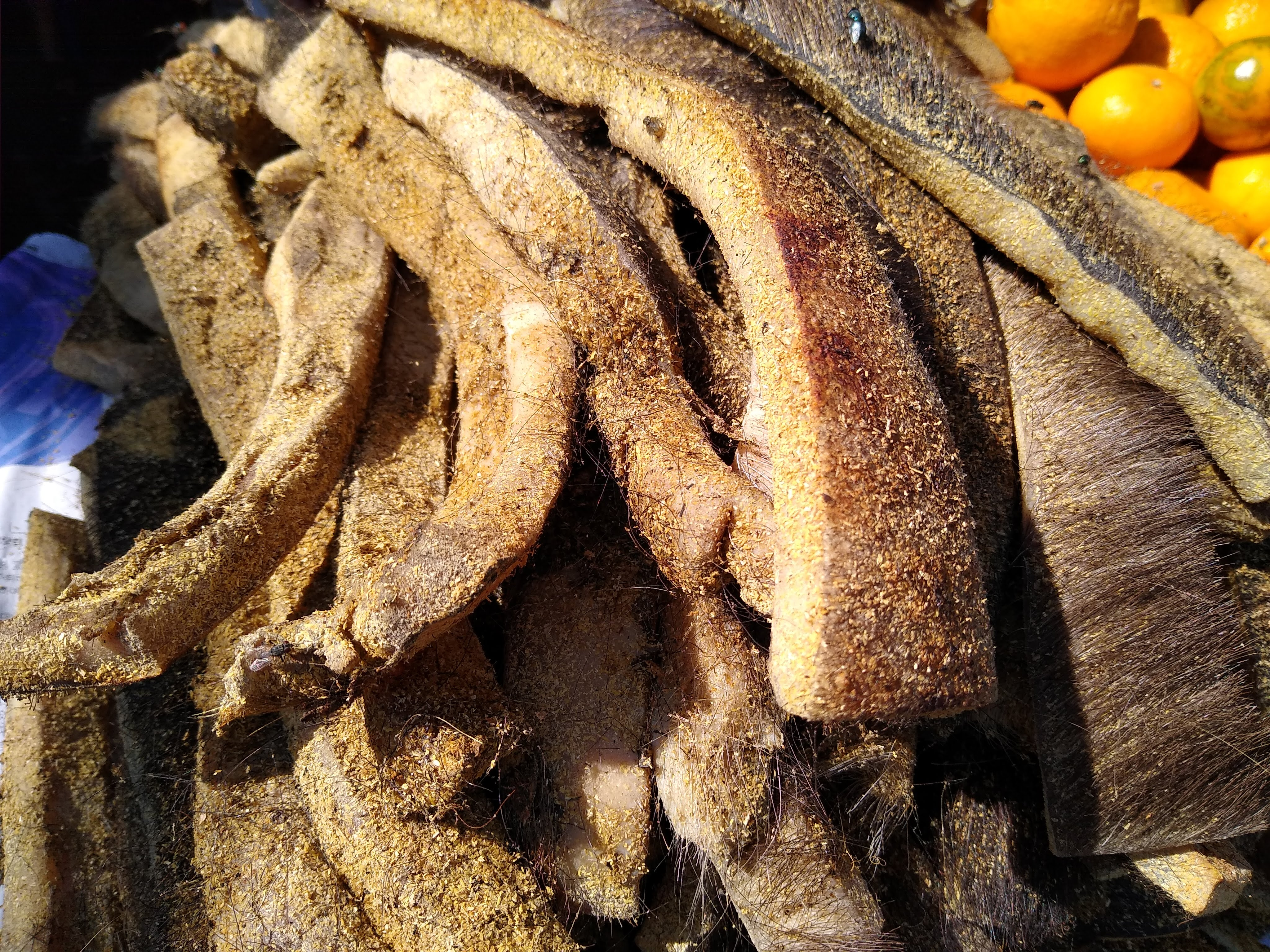 Dried buffalo skin for sale at a roadside stand in Vientiane, Laos.